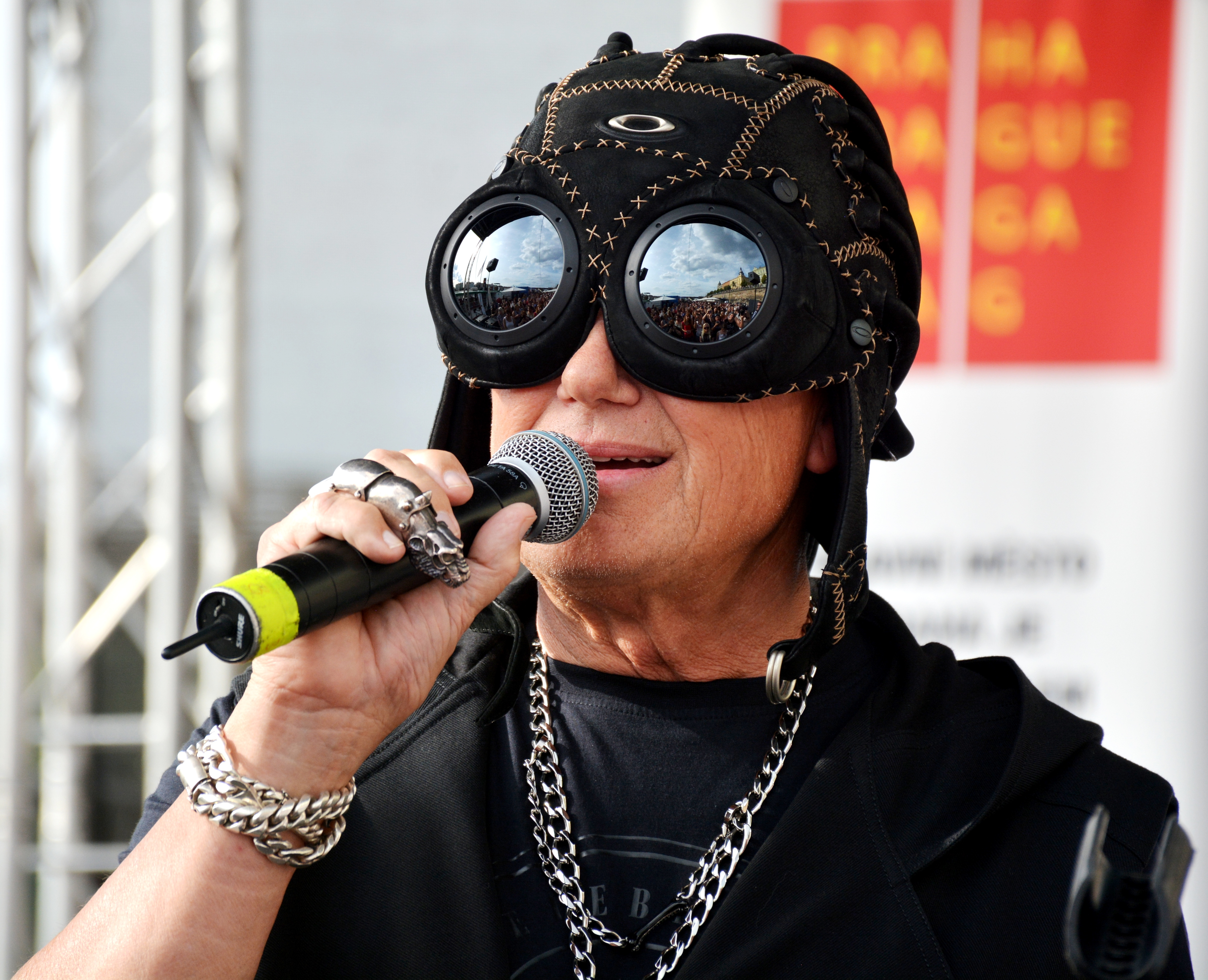 Jiří Korn, Czech vocalist